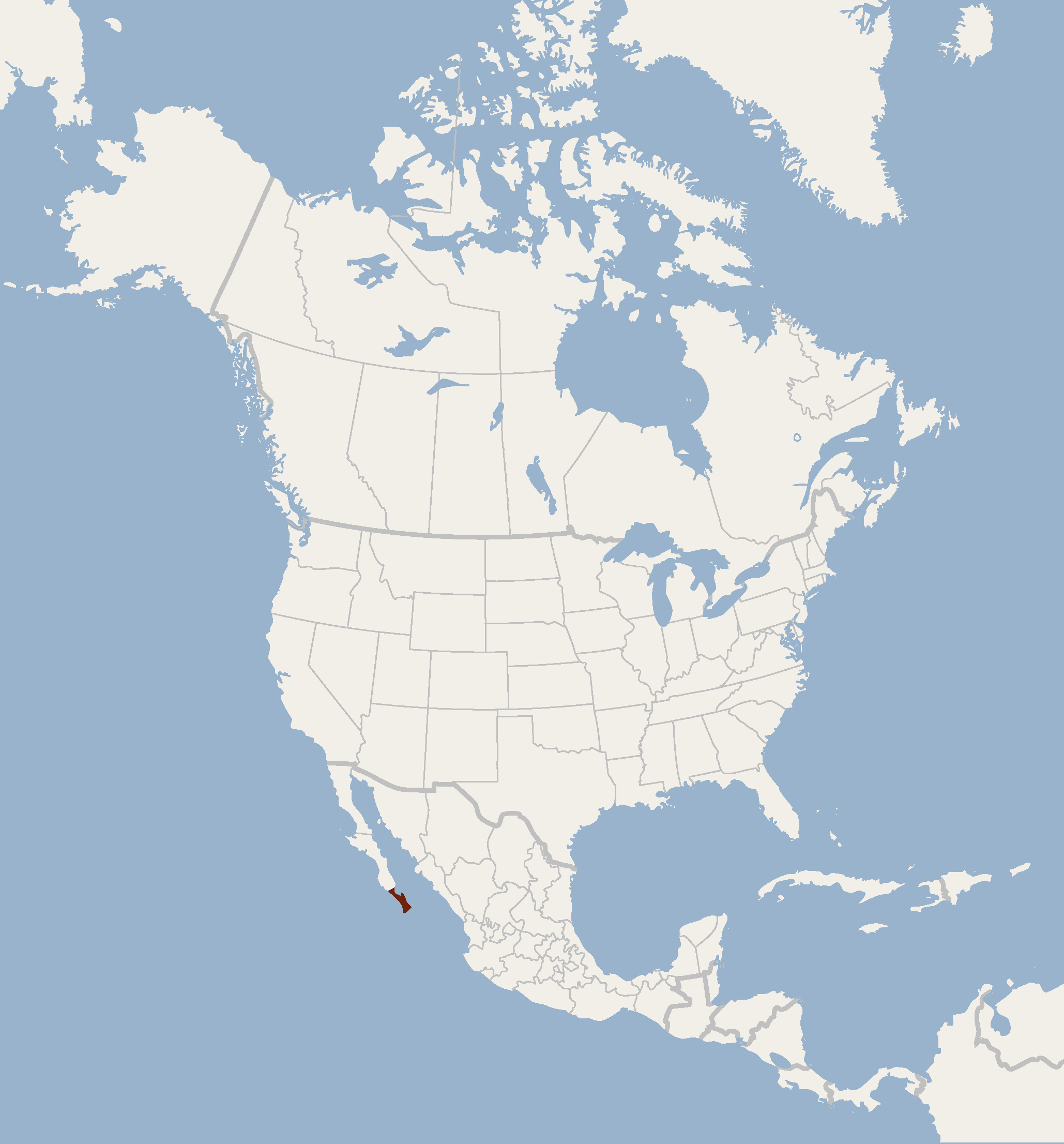 Geographical distribution of Myotis according to Museum specimens